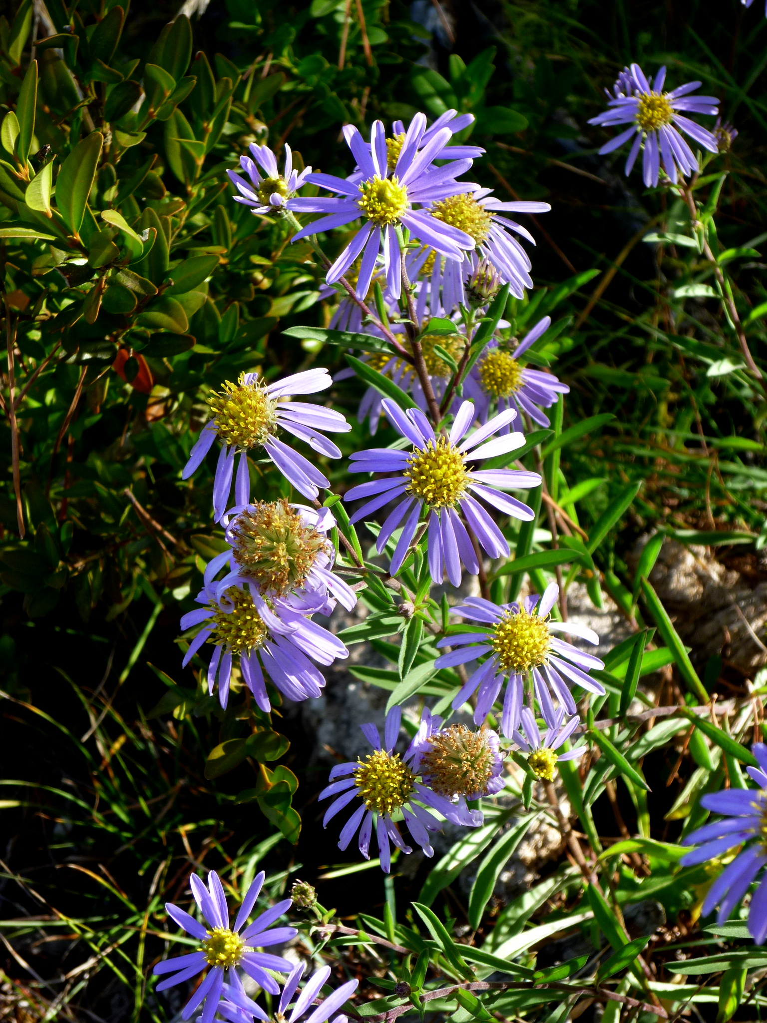 Aster willkommii. In Navès (Solsonès-Catalunya). To 1.230 m. altitude